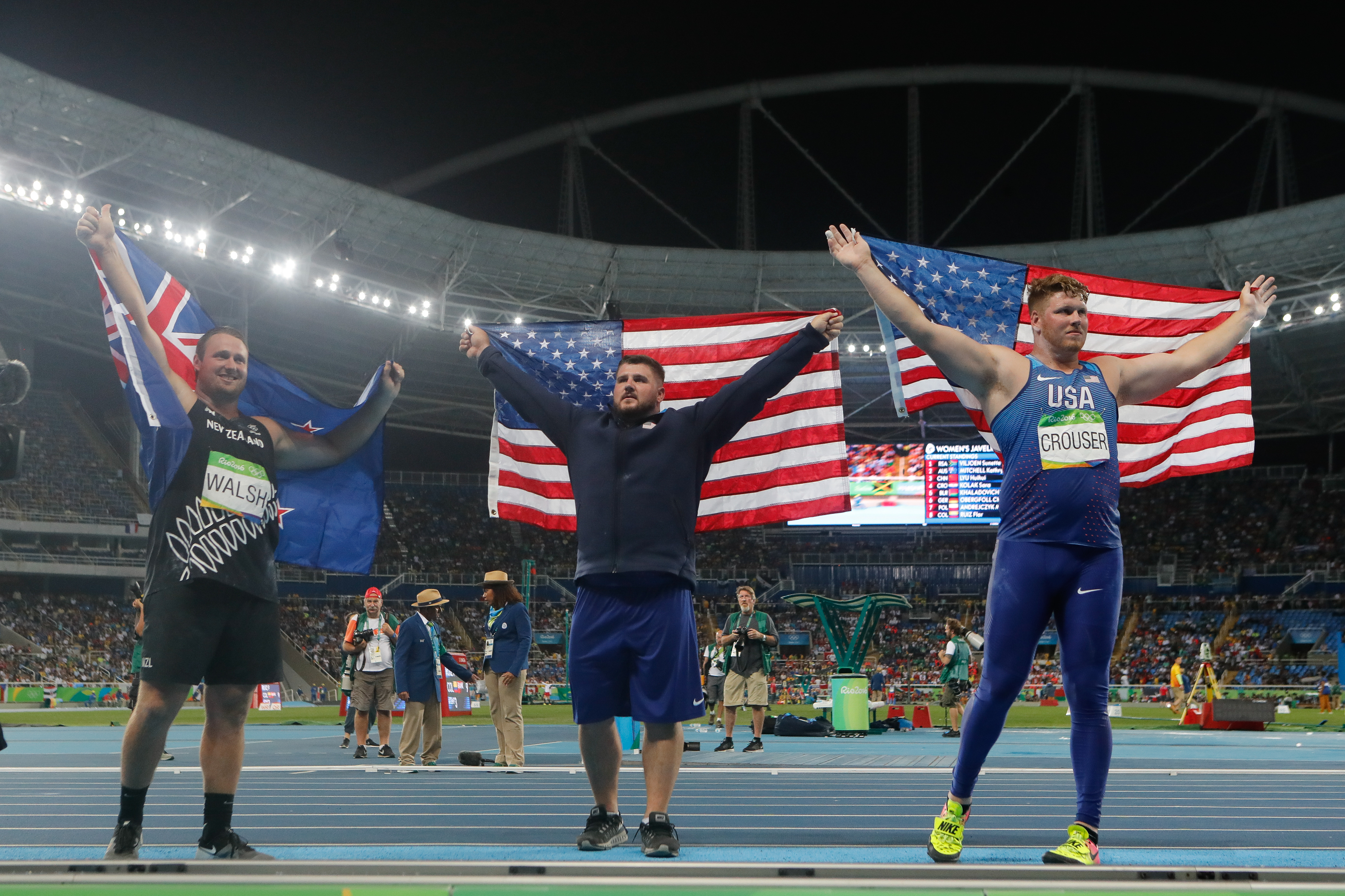 Rio de Janeiro - Norte-americano Ryan Crouser bate recorde olímpico e leva ouro no arremesso de peso, ao lado do compatriota Joe Kovacs e do neozelandês Tomas Walsh, nos Jogos Rio 2016, no Estádio Olímpico. (Fernando Frazão/Agência Brasil)